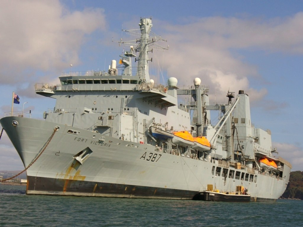 RFA Fort Victoria in Plymouth Sound.